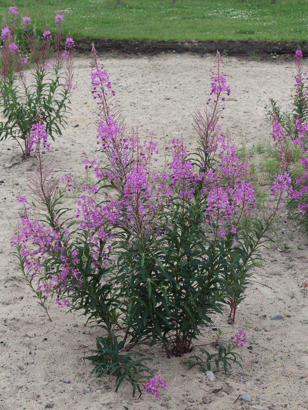 Onagraceae, Epilobium angustifolium